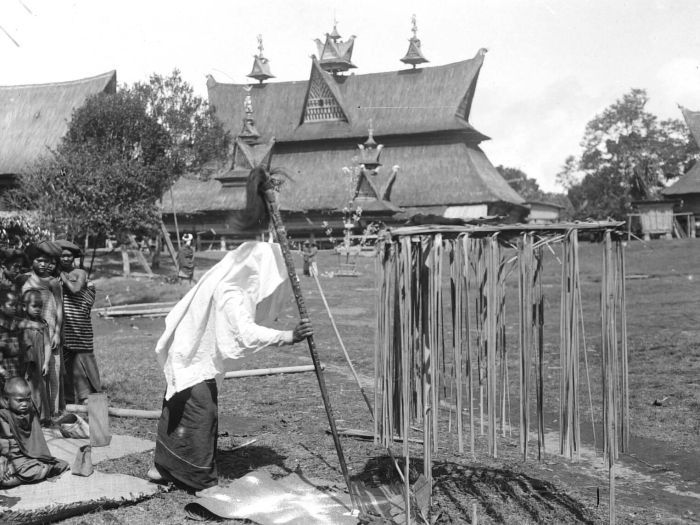 A Karo-Batak priest worships an egg, a toad and a cameleon with his magic staff in the village Kabanjahe in Sumatra. In the background the house of Pa Mbelgah.